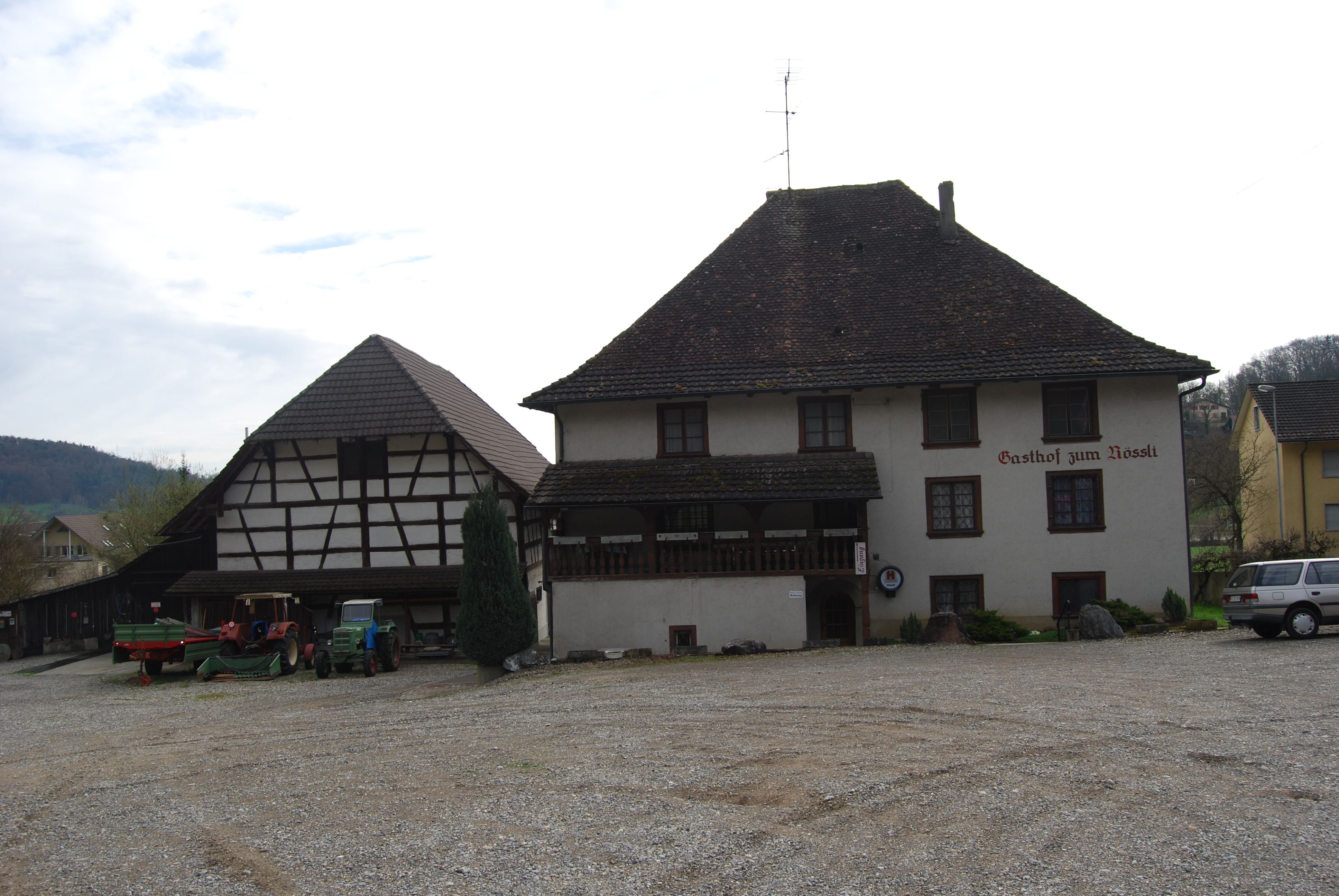 Fisibach, canton of Aargau, SwitzerlandEsperanto: Fisibach, Kantono Argovio, Svislando